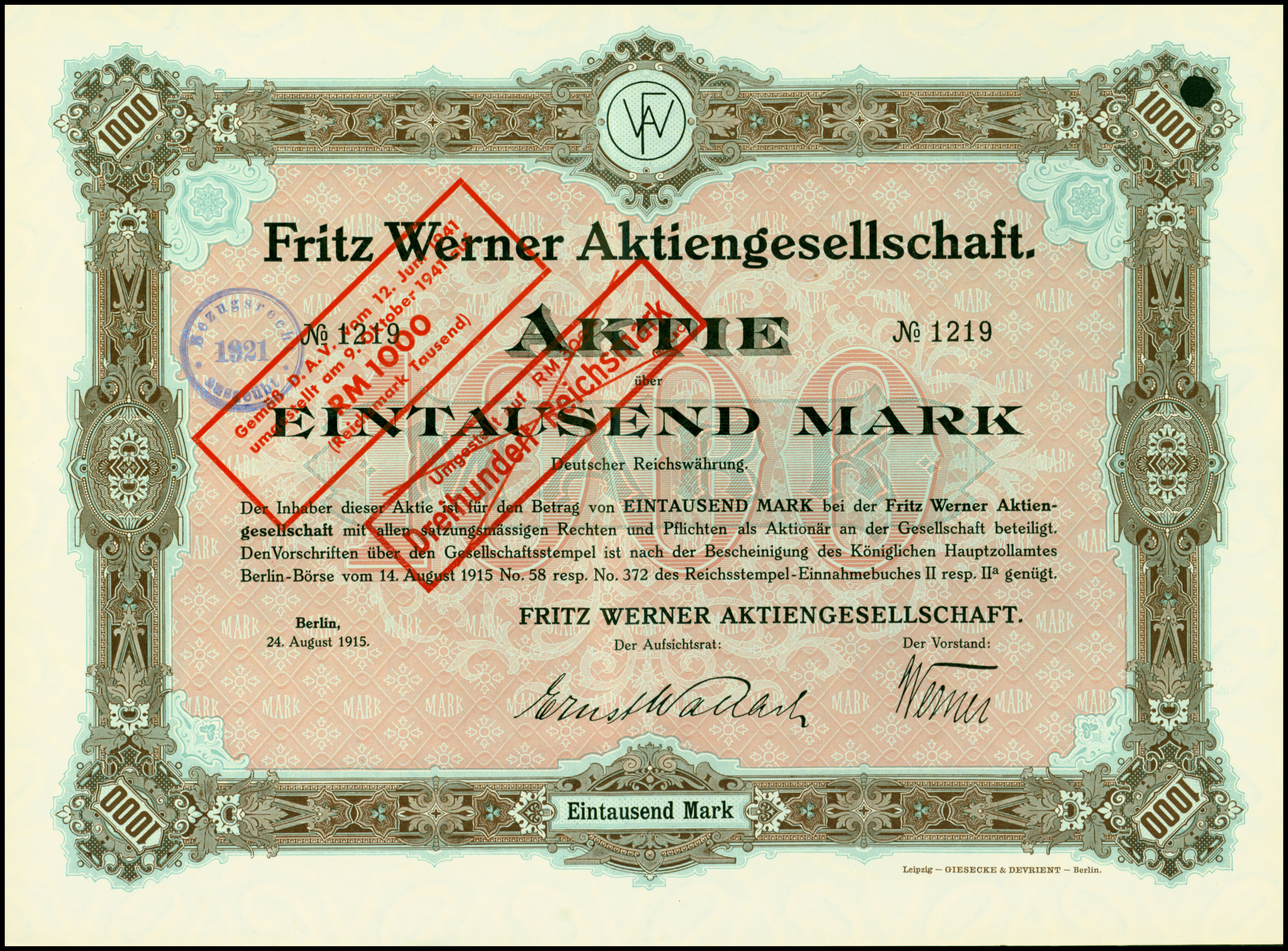 Share of the Fritz Werner AG, issued 24. August 1915